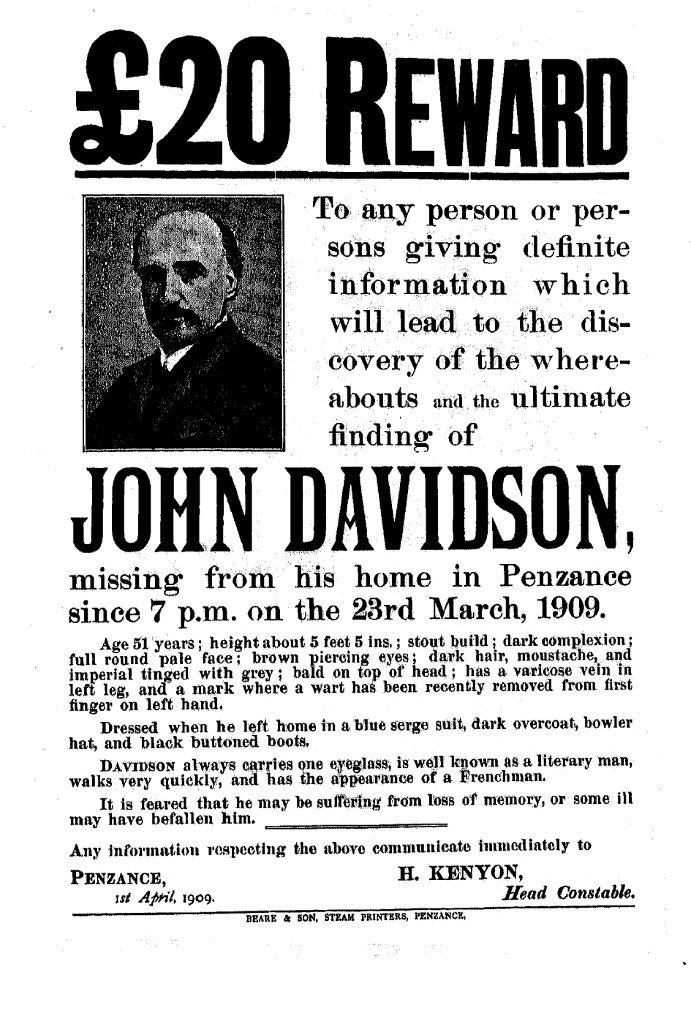 Reward poster for John Davidson, Scots poet.